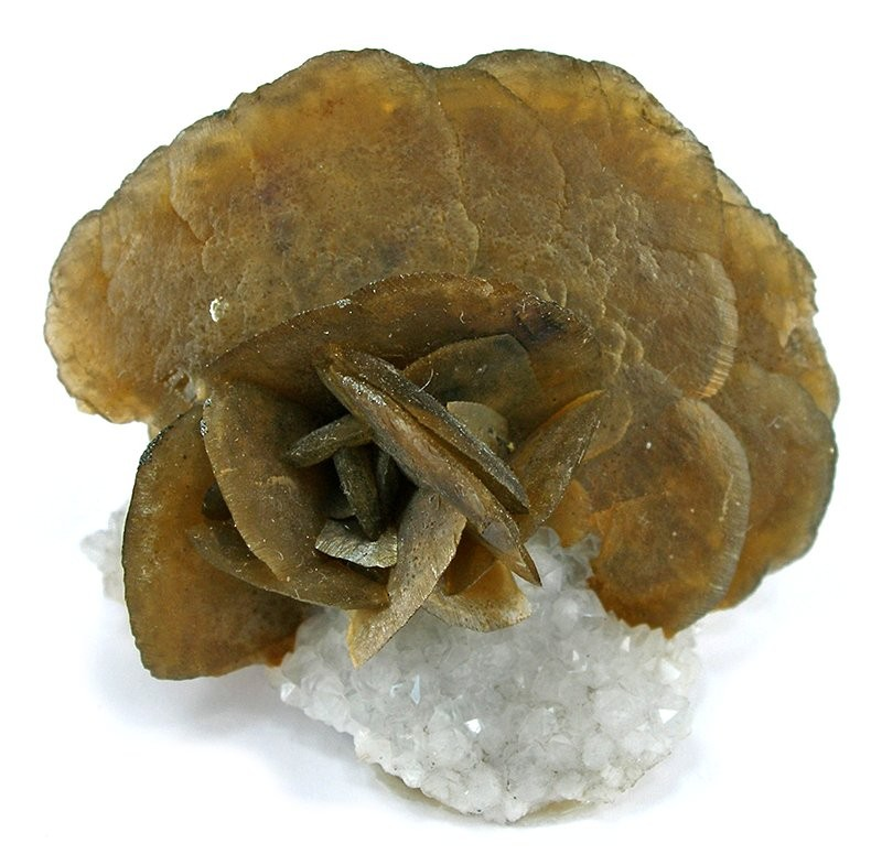 Siderite, Quartz Locality: Camborne - Redruth - St Day District, Cornwall, England, UK (Locality at ) Size: 4.1 x 3.5 x 2.9 cm. A superb competition-level miniature featuring a fan spray of thin, translucent siderite crystals to 4 cm, perched upon a knoll of sparkling white quartz! The aesthetics are great for any siderite from any locality, and the significance of the large crystals from this particular historic location is also a bonus to the intrinsic quality for the species. From the miniature rarities suite of Lawrence Conklin. Almost certainly found in the mid to late 1800s and remarkably, despite its apparent fragility, preserved intact since. This is complete all around and displays from both sides.